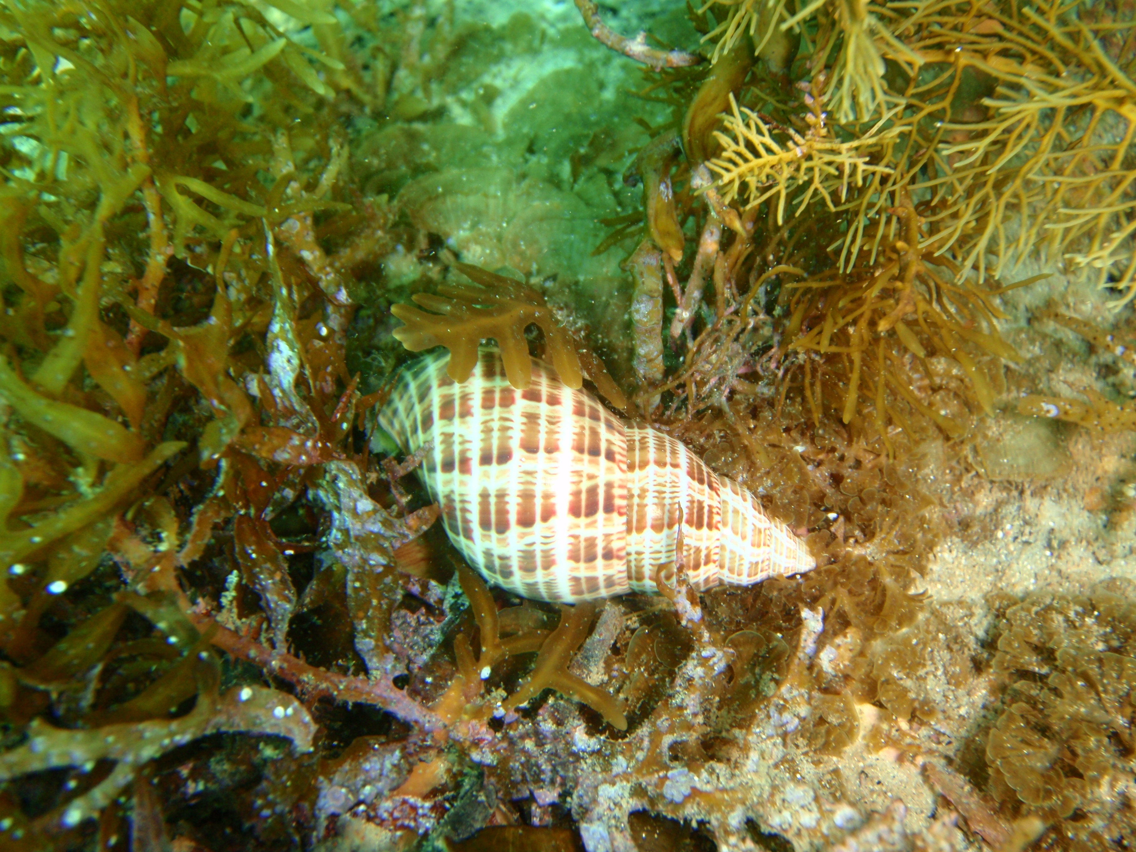 Lined cominella Cominella lineolata at the point at Second Valley, South Australia